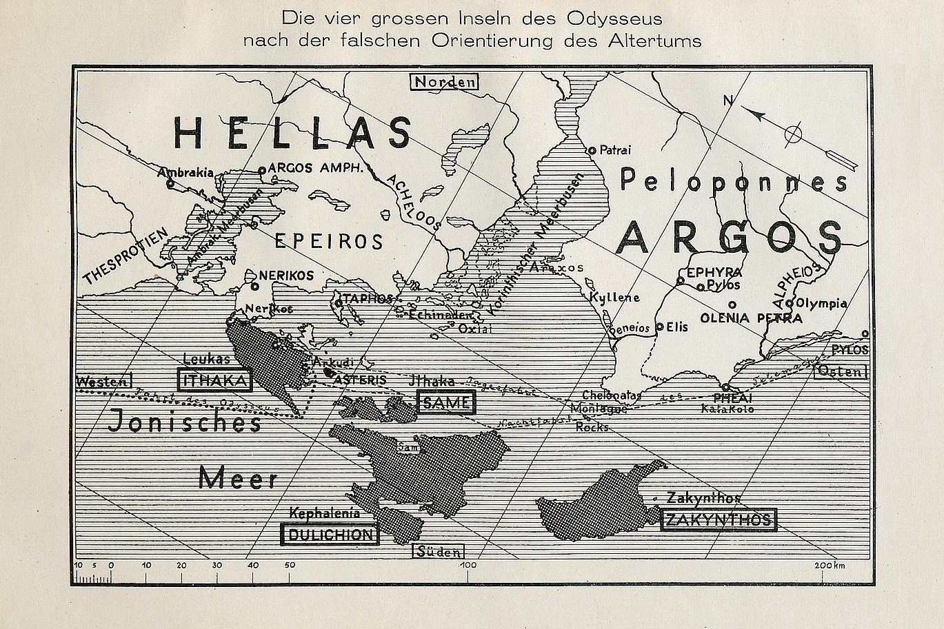 Map of Homer's Ithaca, Same, Dulichion and Zakynthos according to Wilhelm Dörpfeld (1927)